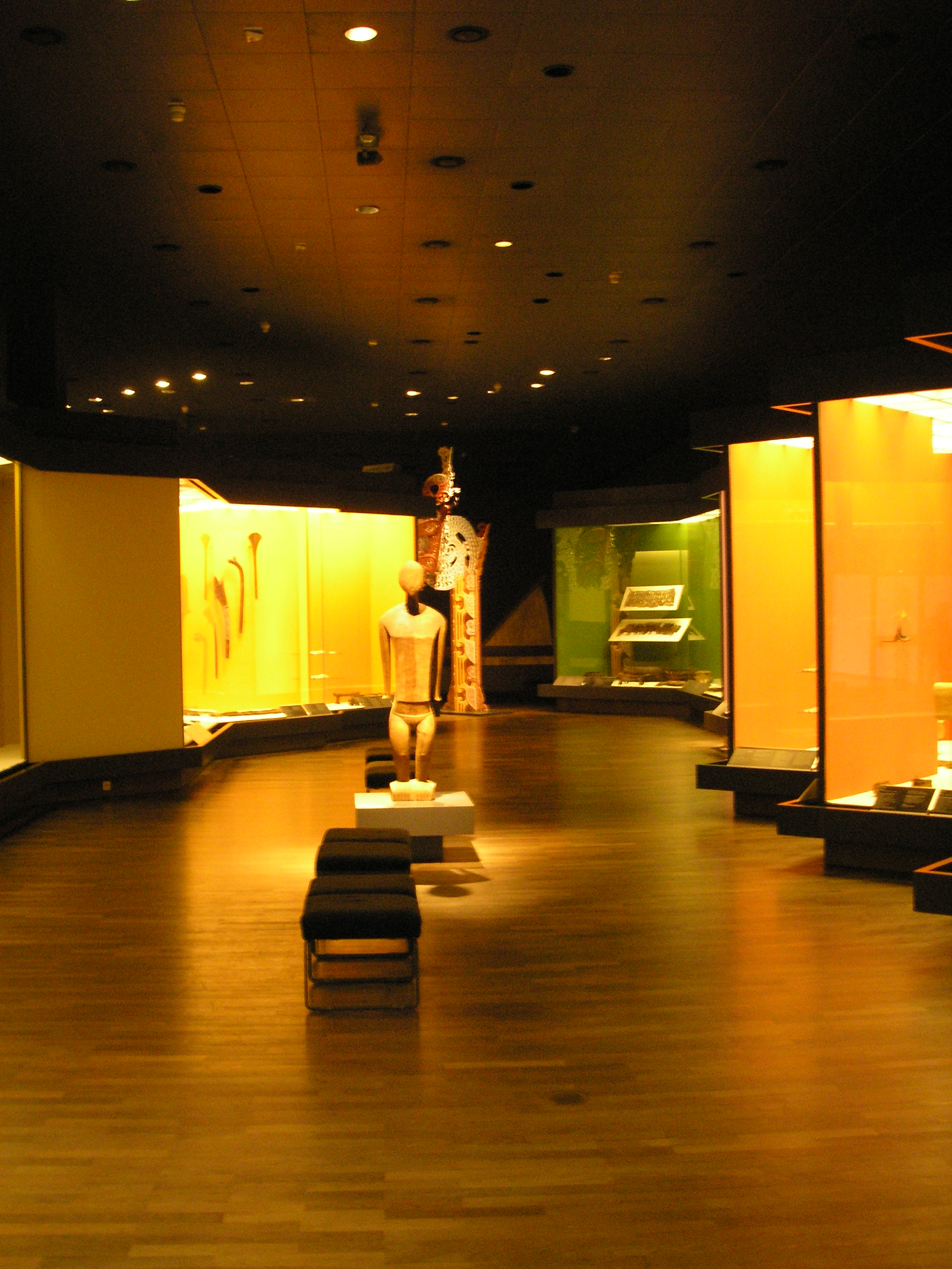 Interior view of the collection at the Ethnologisches Museum, Berlin-Dahlem, Oceanic collection.